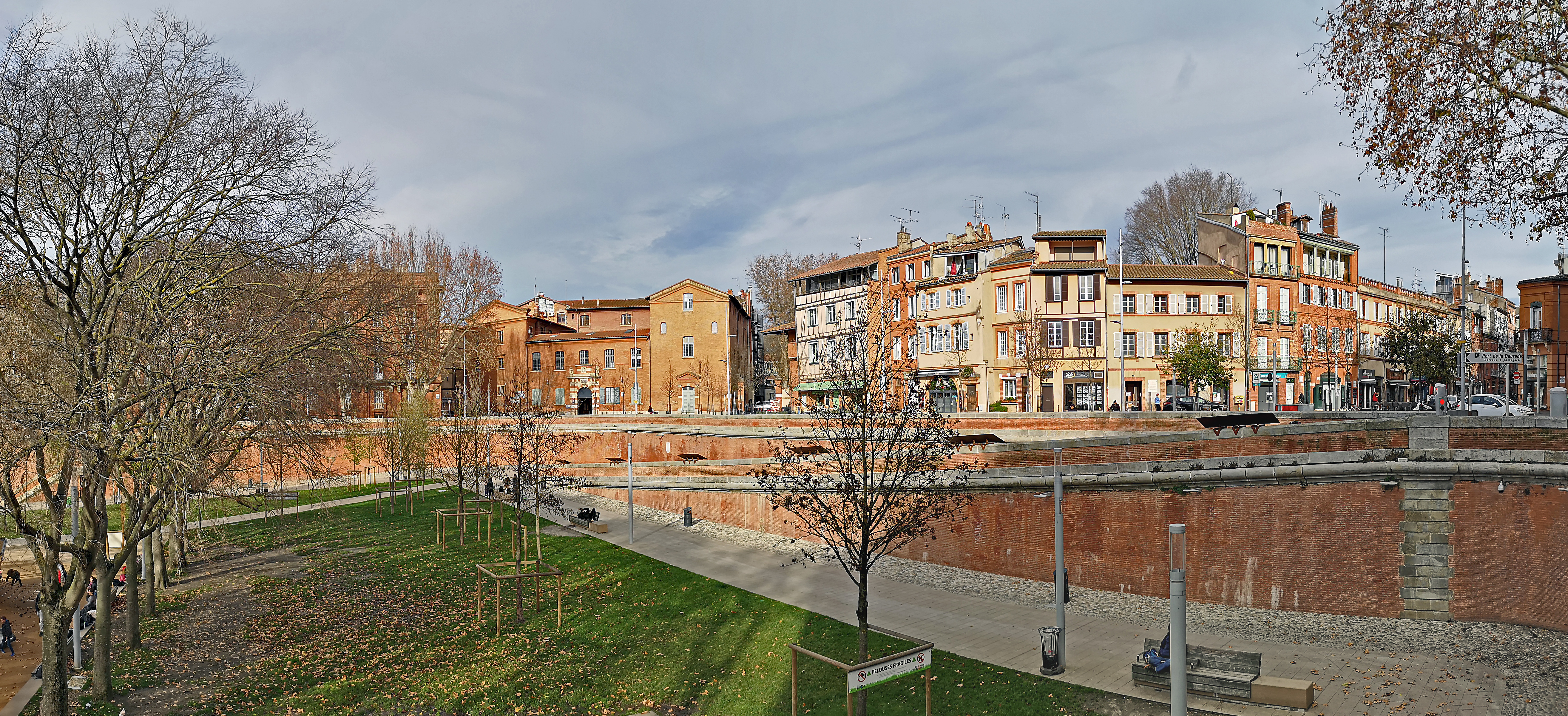 Place de la Daurade (Toulouse) - southern exposure